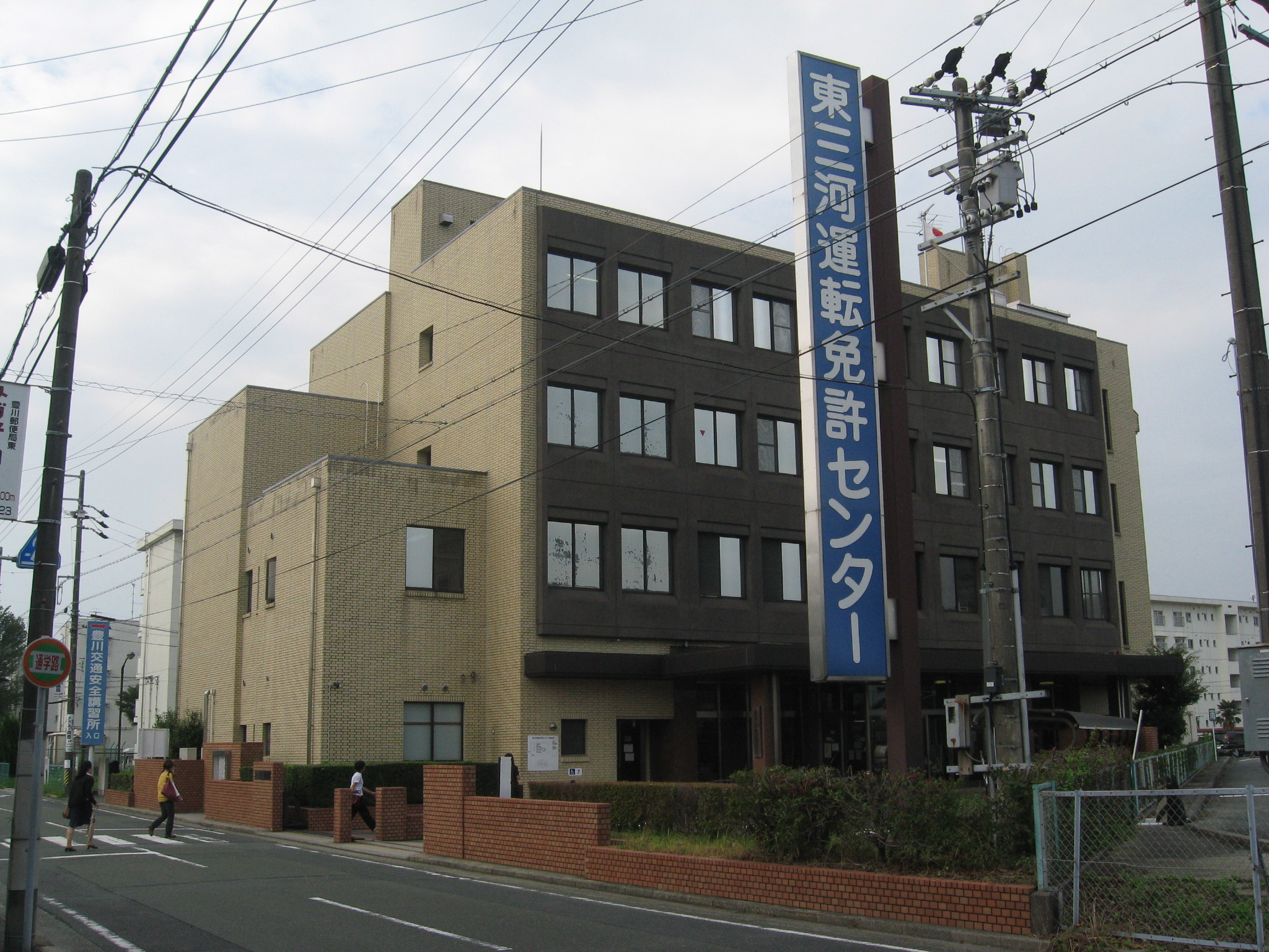 Higashi-mikawa Driver's License Center in Toyokawa, Aichi